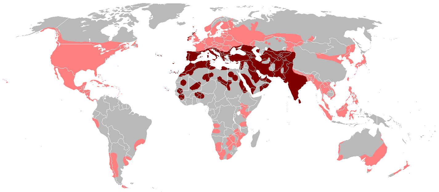 Rock Dove Columba livia distribution map, with the addition of national borders. Dark red: approximate native range. Light red: introduced non-native populations